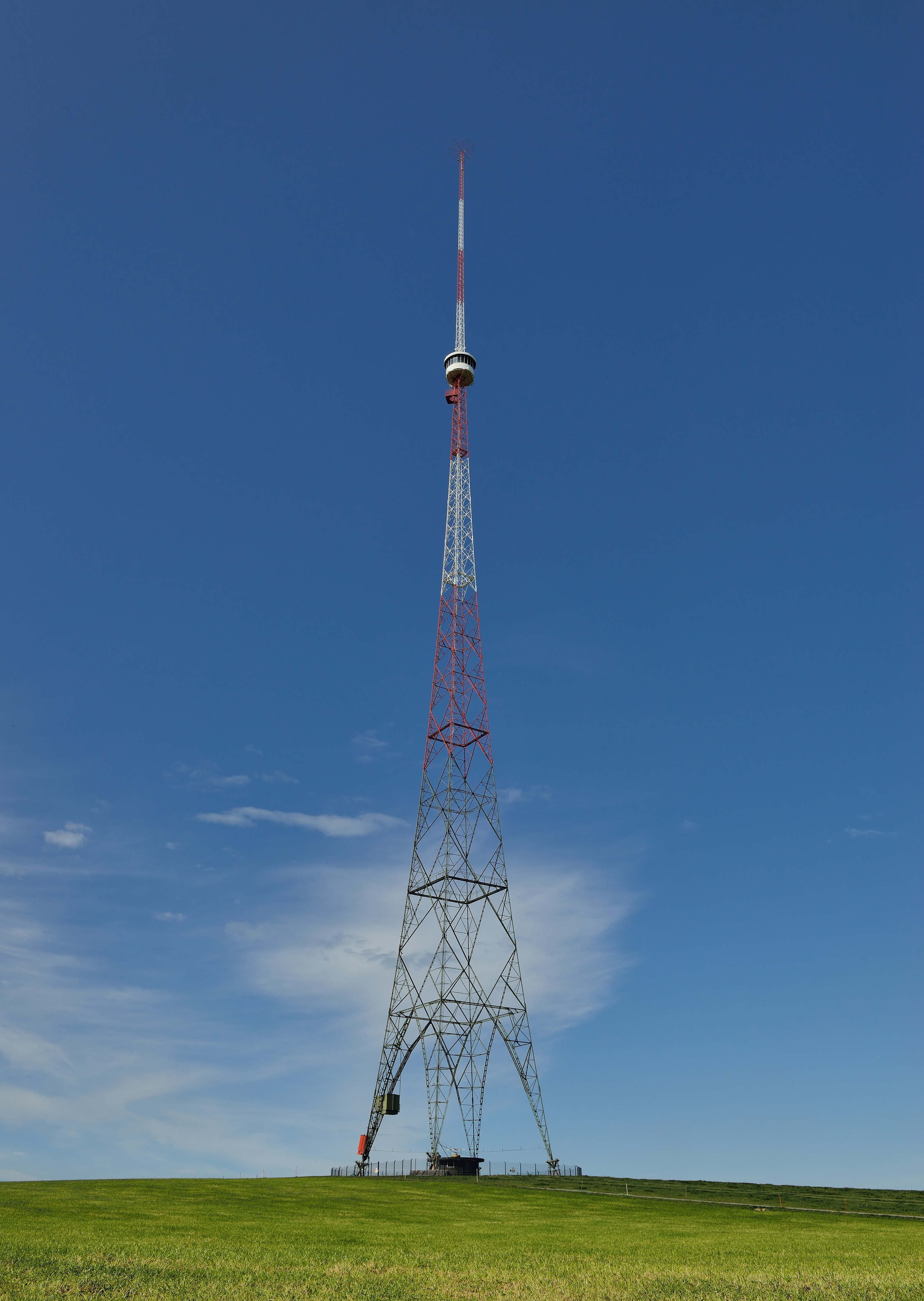 Blosenberg Tower